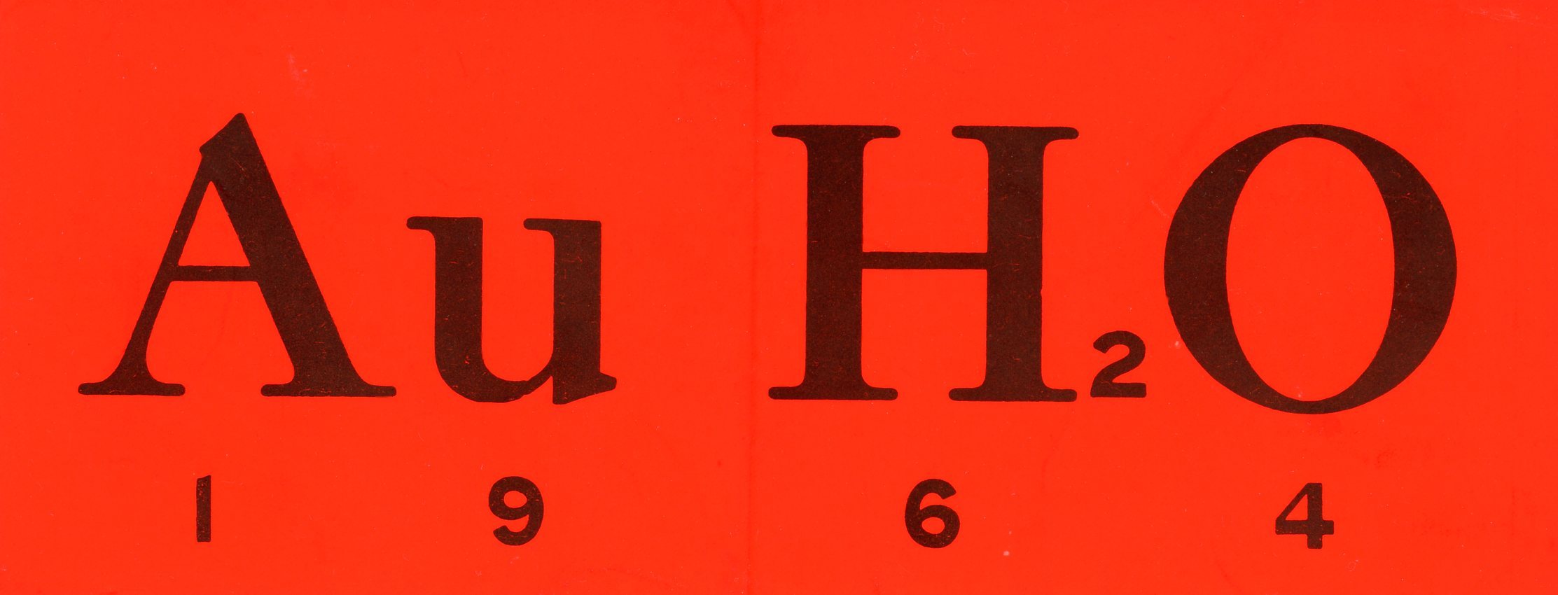 1964 Presidential campaign bumper sticker with Goldwater surname shown as AU = gold and H2O = water.